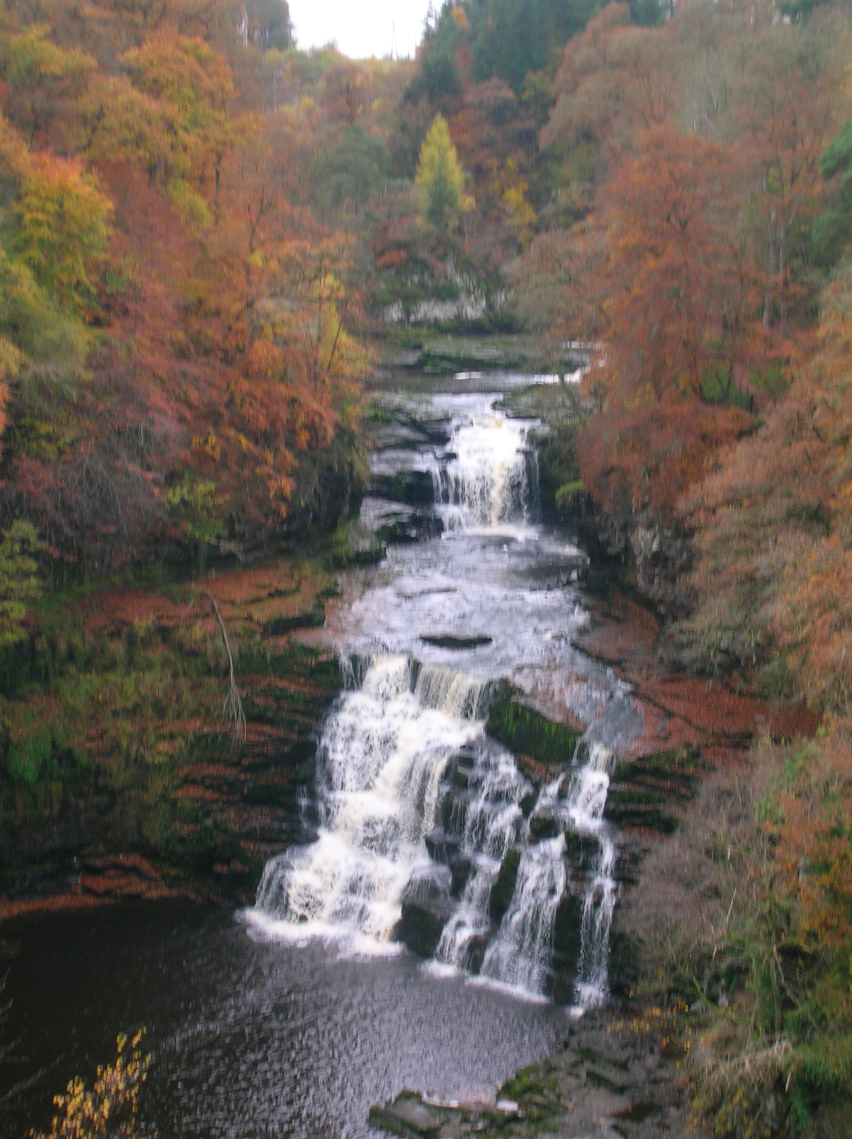 Corra Linn on the river Clyde at New Lanark, Scotland.